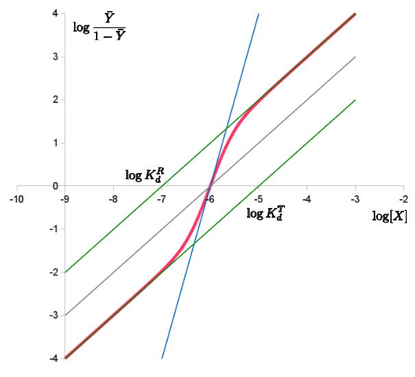 Hill plot of the Monod-Wyman-Changeux model, showing the changing slope of the binding function in red, indicating a Hill coefficient depending on saturation, and the intercepts of the green asymptots providing the dissociation constants of the R and T states. In blue is shown the corresponding Hill function and in grey the corresponding non-cooperative binding.